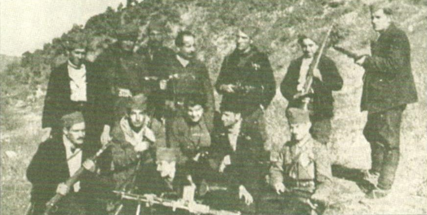 Partisan unite in Macedonia, spring 1944